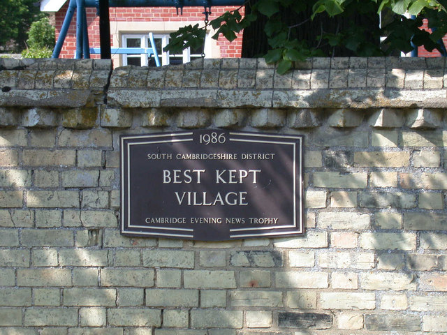 Harlton - Best Kept Village Er, in 1986. But there are a lot of villages in South Cambs to get round.